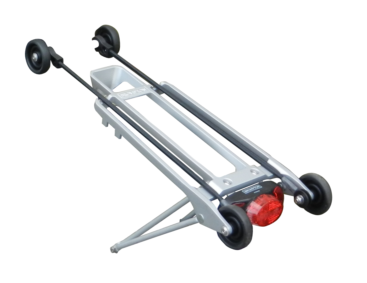 Brompton bicycle "2017" rack with new guides for luggage straps, and new-style rollers at all four corners replacing previous default and "Eazy-wheels" options. The rack is fitted with a dynamo-powered rear light. The image is crop of a larger image, with a SVG vector-mask created in Inkscape.